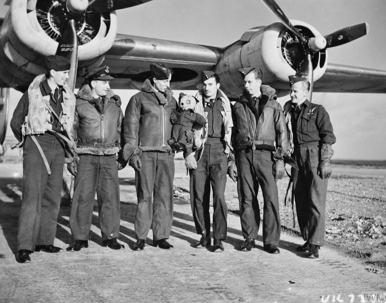 IWM caption : Flying Officer Kenneth Owen 'Kayo' Moore of No 224 Squadron and his crew in front of their Liberator V at St Eval, June 1944, after becoming the only crew in Coastal Command to sink two U-boats in one sortie. They achieved this feat on the night of 7/8 June 1944, when flying a 'Cork' patrol over the western end of the Channel. From left are : Flying Officer A. P. Gibb (navigator) Flying Officer J. M. Ketcheson (2nd Pilot) Warrant Officers E. E. Davison W. P. Foster D. H. Greise W. N. Werbeski (all WOp/AGs) WO Davison is holding the most important member of the crew, a toy panda by the name of Warrant Officer 'Dinty' DFM!